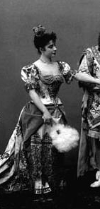 Carlotta Brianza and Paul Gerdt in the 1890 production of the Sleeping Beauty by the Mariinsky Theatre.